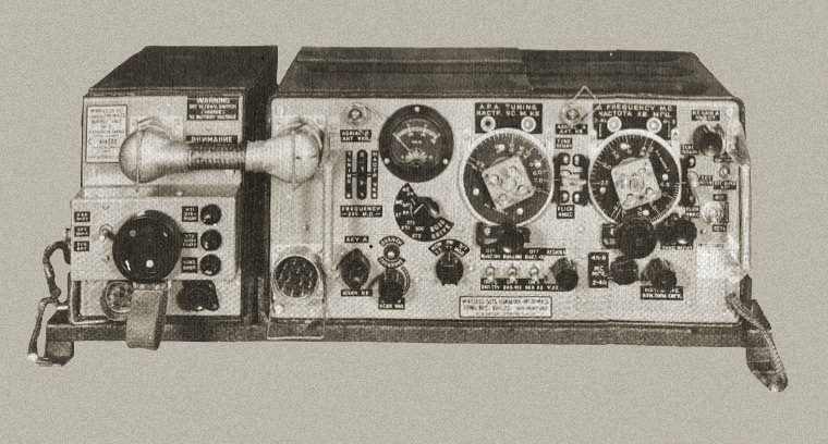 Wireless Set No. 19 photograph.